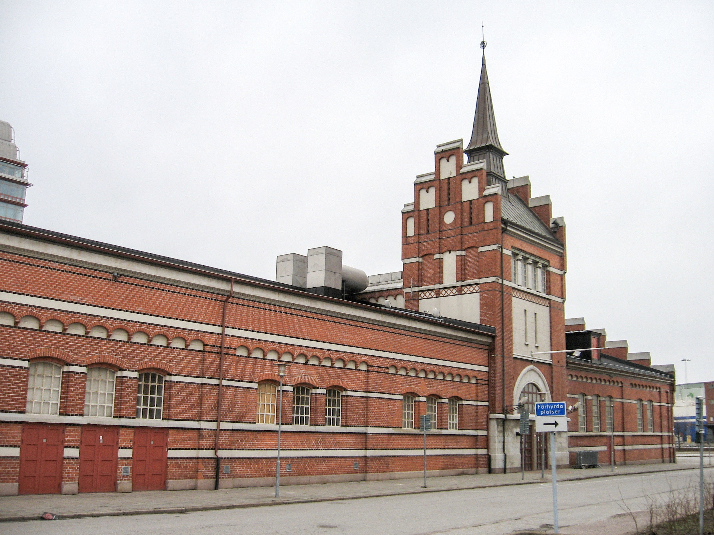 Malmö Slaughterhouse